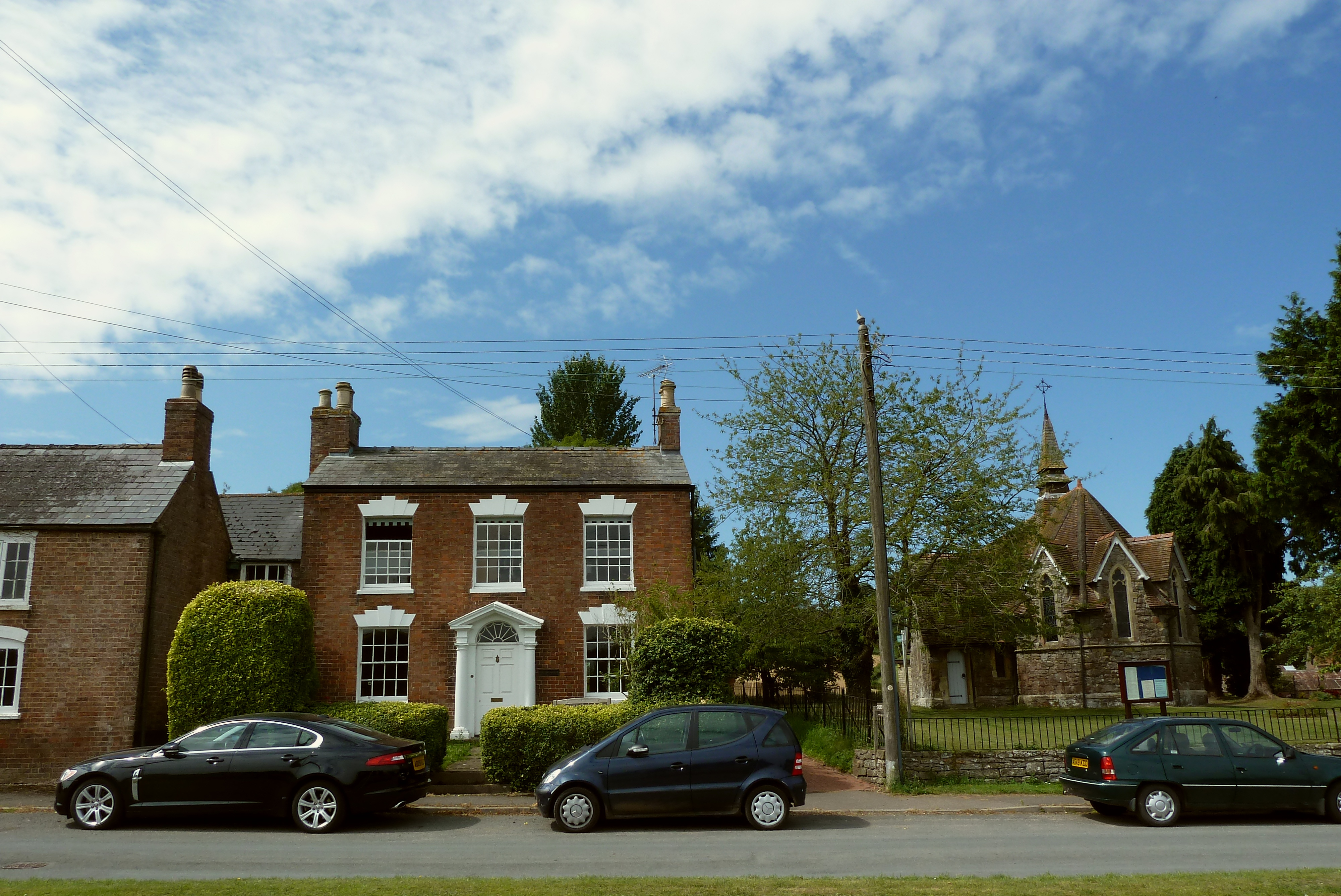 Georgian house and church of St John the Evengelist at Purton in Gloucestershire.